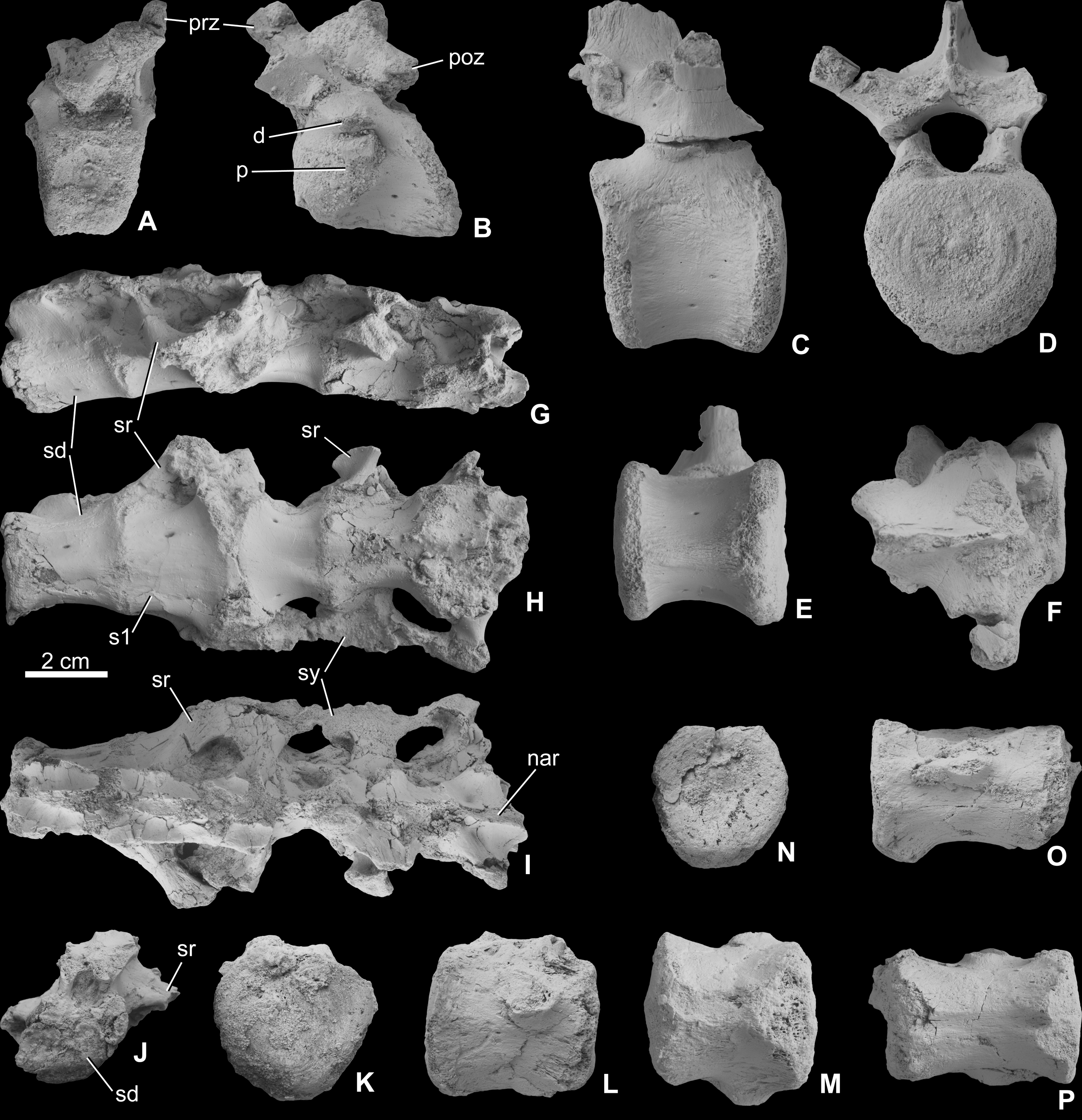 Vertebrae of Mochlodon vorosi n. sp. from the Upper Cretaceous Csehbánya Formation, Iharkút, western Hungary. A, cervical vertebra (MTM 2012.19.1) in cranial, B, lateral views; C, dorsal vertebra (MTM 2010.118.1.) in lateral, D, cranial, E, ventral, F, dorsal views; G, sacrum (MTM 2010.118.1.) in left lateral, H, ventral, I, dorsal, J, cranial views. K, caudal vertebral centrum (MTM 2012.20.1) in ?proximal, L, lateral, M, ventral views; N, caudal vertebral centrum (MTM 2012.21.1) in ?proximal, O, lateral, P, ventral views. Anatomical abbreviations: d, diapophysis; nar, neural arch; p, parapophysis; poz, postzygapophysis; prz, prezygapophysis; sd, sacrodorsal vertebra; sr, sacral rib; sy, sacral yoke.